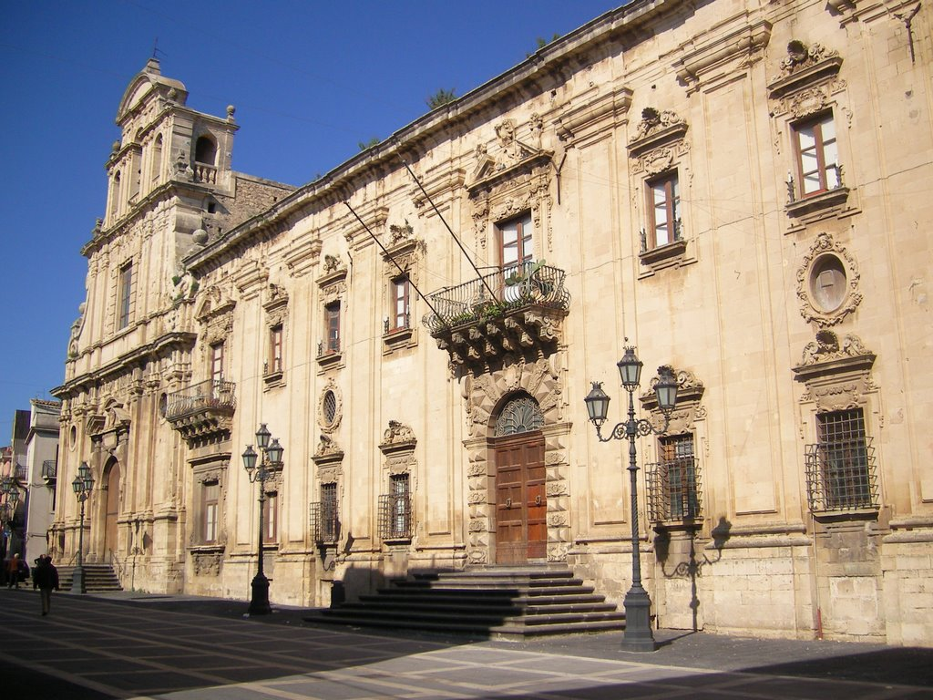 Militello. St. Benedict Abbey (cent. XVII)